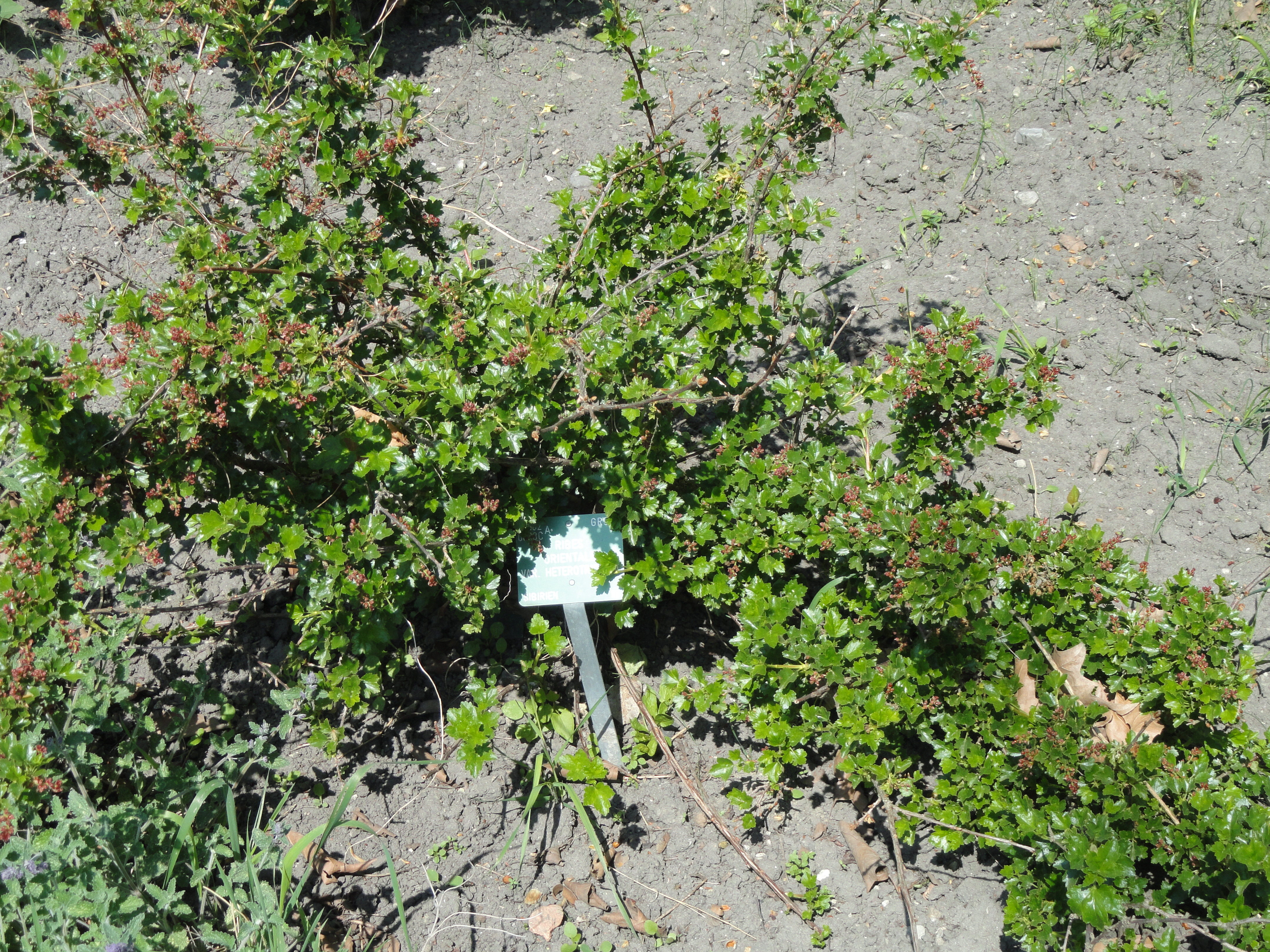 Botanical specimen in the University of Copenhagen Botanical Garden, Copenhagen, Denmark.